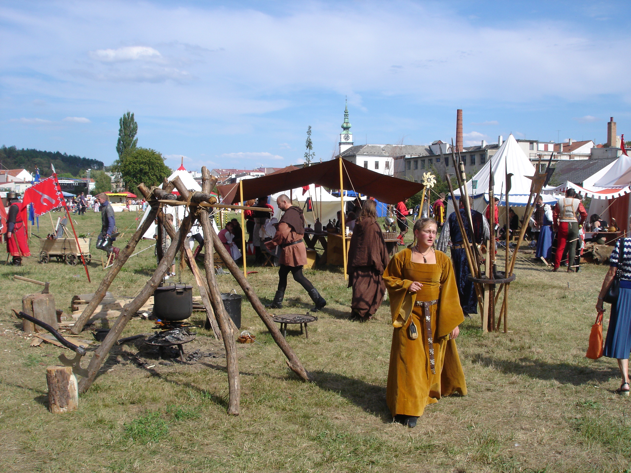 Medieval city in UNESCO celebrate in Třebíč, podzámecká niva. Photo taken near riverí.